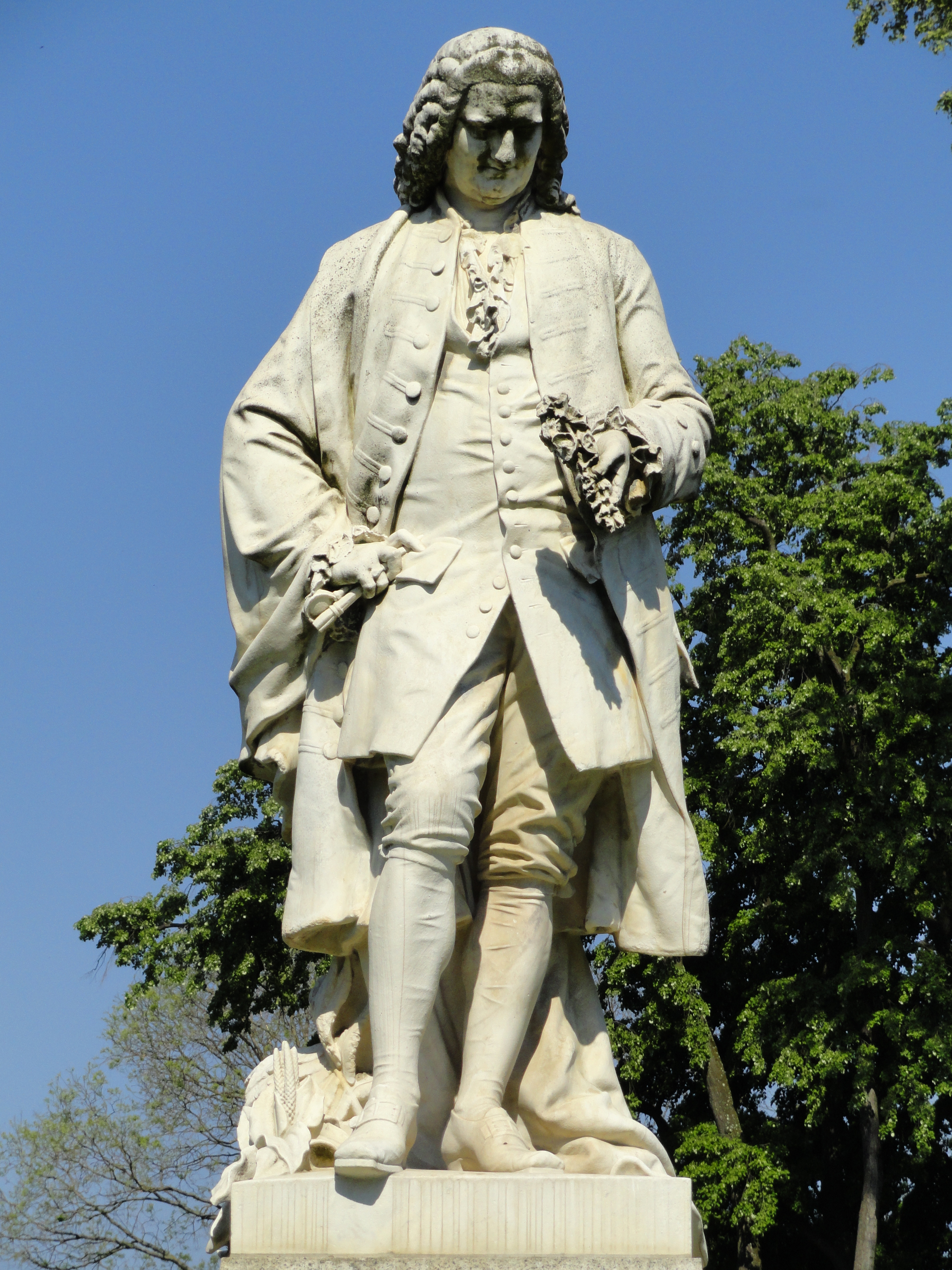 Monument to Bernard de Jussieu, Parc de la Tête d'Or, Lyon, France.